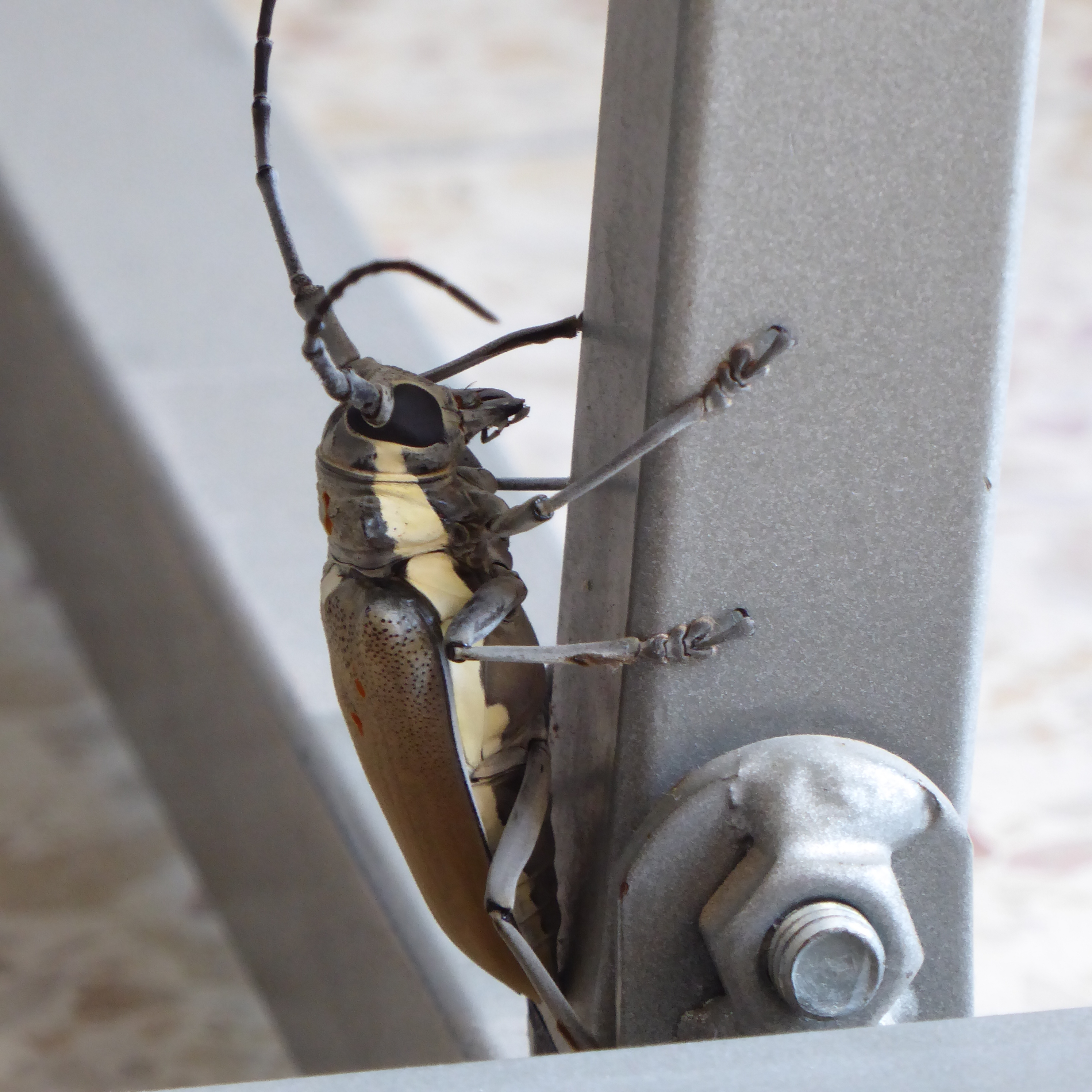 Batocera rufomaculata